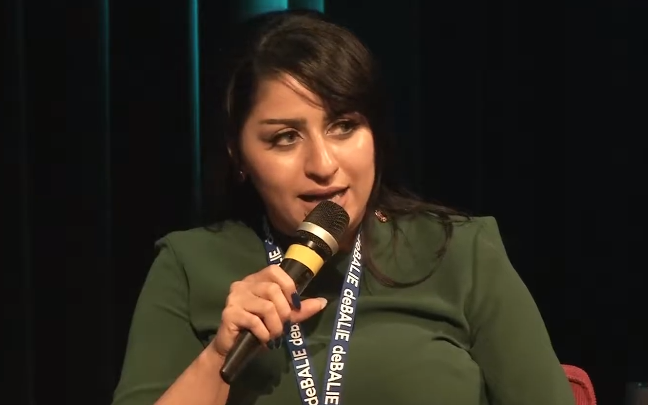 Rana Ahmad speaking at Celebrating Dissent 2019 at De Balie, Amsterdam, Netherlands.